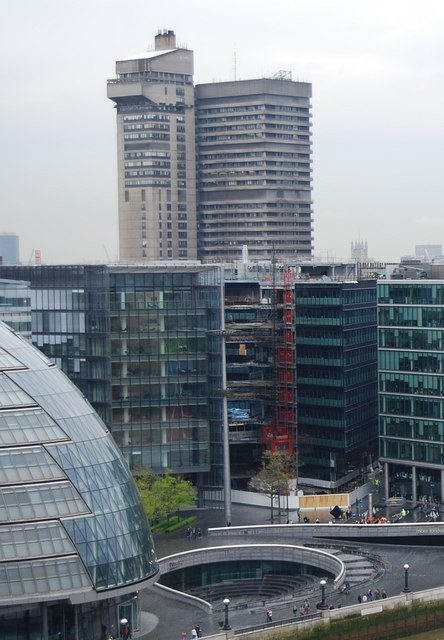 Guy's Tower, Guy's Hospital